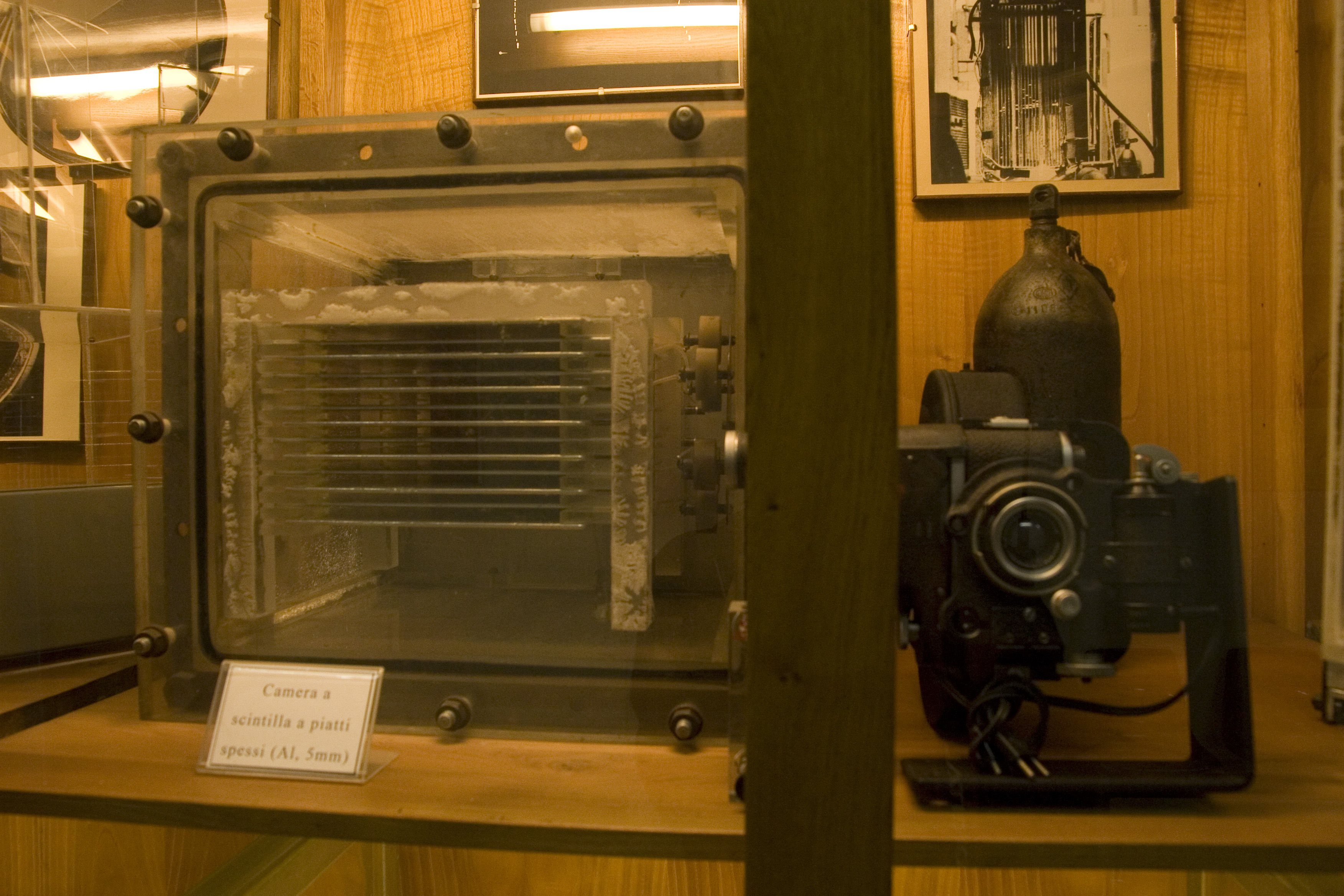 Spark chamber, a kind of particle detector.Located at Ed. Marconi, physics department, Rome university "La Sapienza".